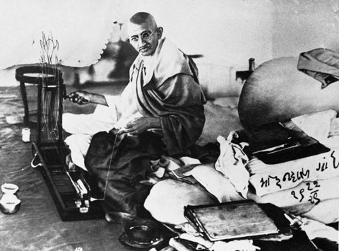 Gandhi spinning. Gujarati Handwriting: Mohandas Gandhi 19-12-1929.